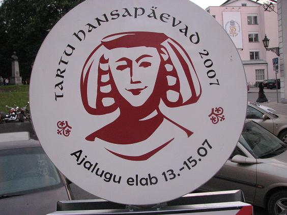 Hanseatic Days of Tartu 2007, Estonia